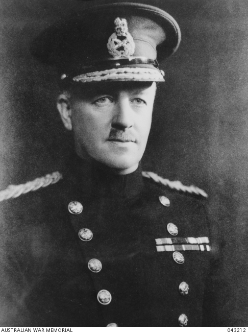 Rupert Downes -"MAJOR-GENERAL R. M. DOWNES, DGMS. 1934-1941. PHOTOGRAPH PUBLISHED IN AUSTRALIA IN THE WAR OF 1939-45, MEDICAL, VOL 2, MIDDLE EAST AND FAR EAST, PAGE 15."